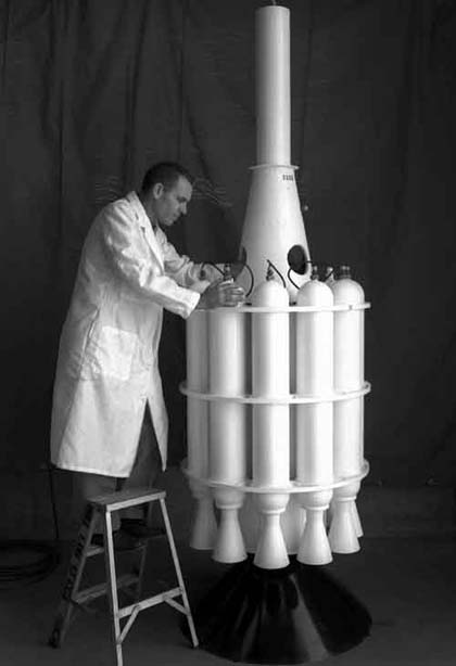 Upper stages stack of the Juno-I (Jupiter-C) and Juno-II rockets